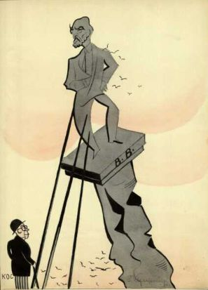 Caricature of two Polish mid-war politicians: Adam Koc and Walery Sławek.